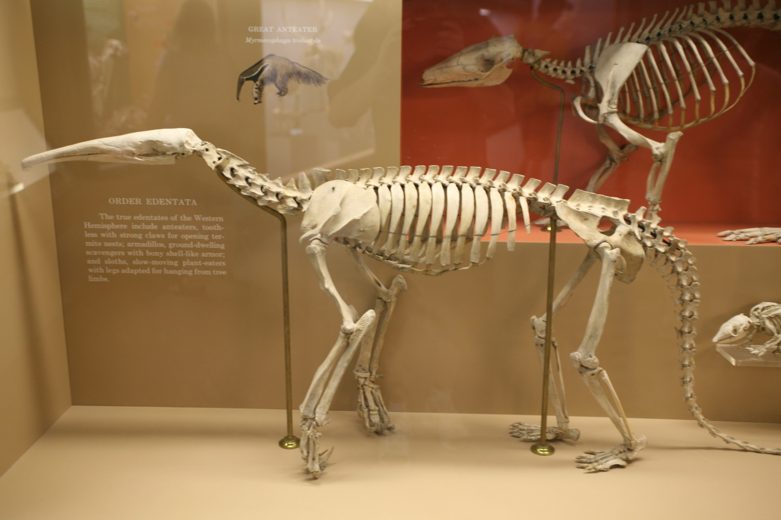 Myrmecophaga tridactyla skeleton